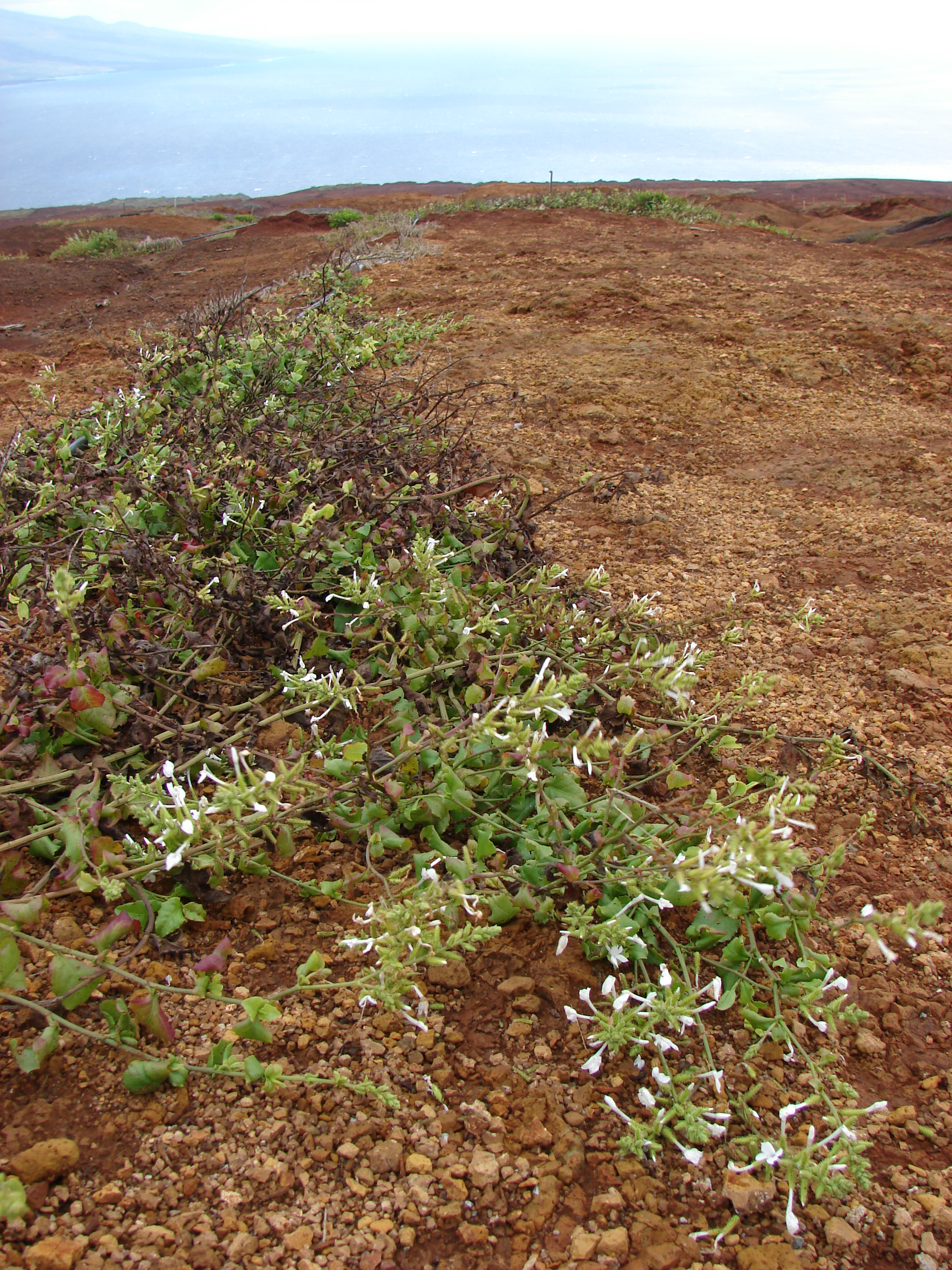 Plumbago zeylanica (habit). Location: Kahoolawe, Puu Moaulanui